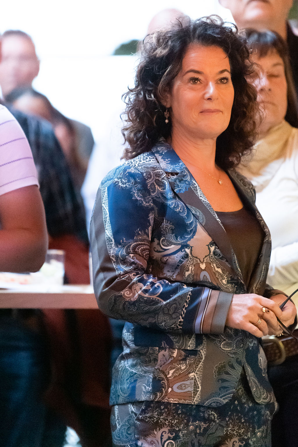 © Consulate General of the Kingdom of the Netherlands in San Francisco & Heidi Alletzhauser - Holland in the Valley Alumni Event - Thursday, September 19, 2019 - Follow @NLinSF & @NLintheUSA